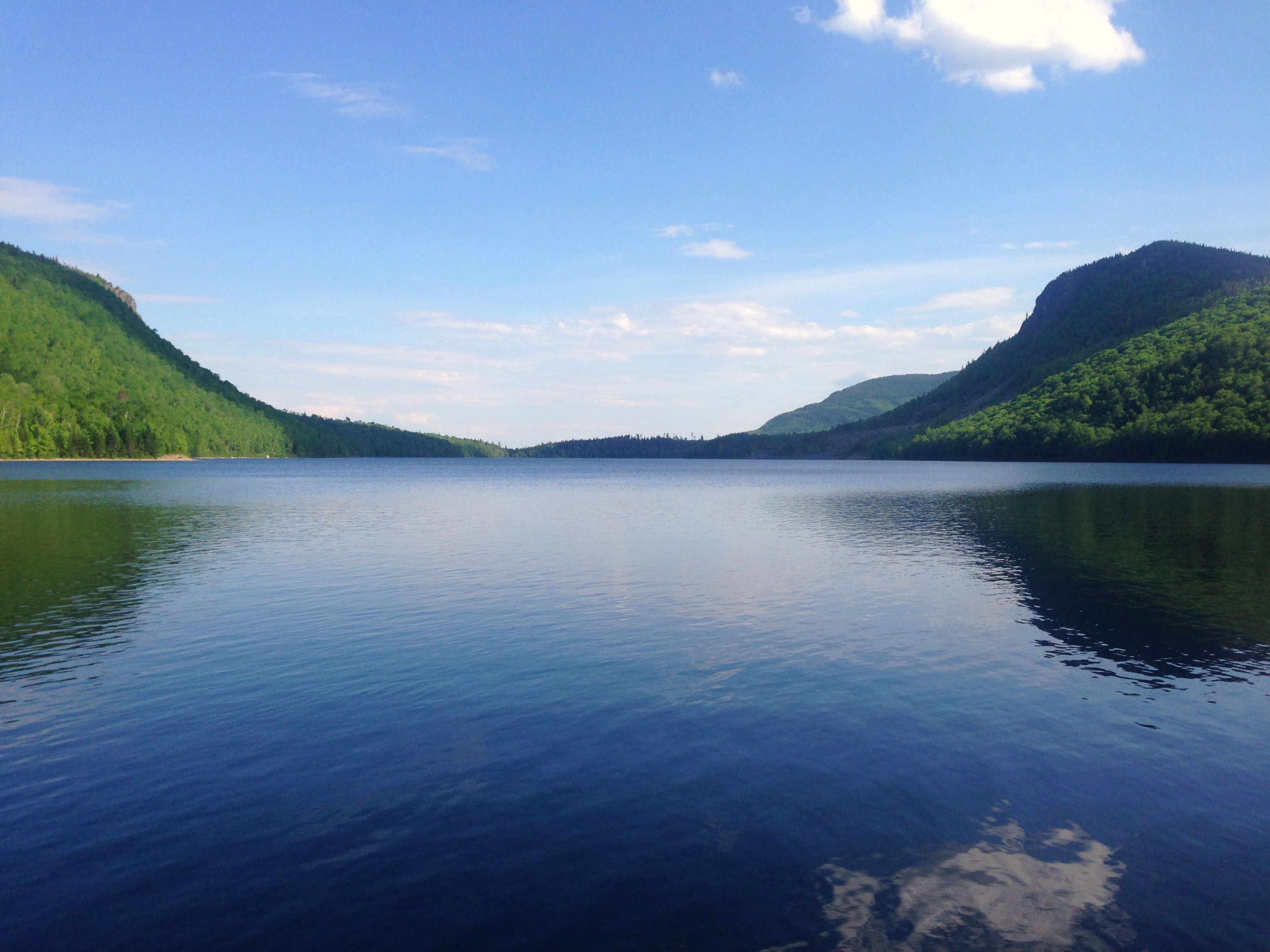 View of Enchanted Pond in summer from Bulldog Camps on the northern shore.